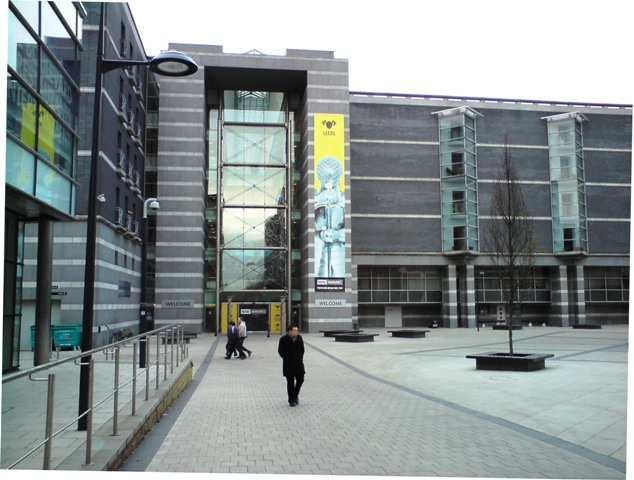 Royal Armouries Museum — Main Entrance on Armouries Square, Clarence Dock. Located in Leeds — West Yorkshire, England.